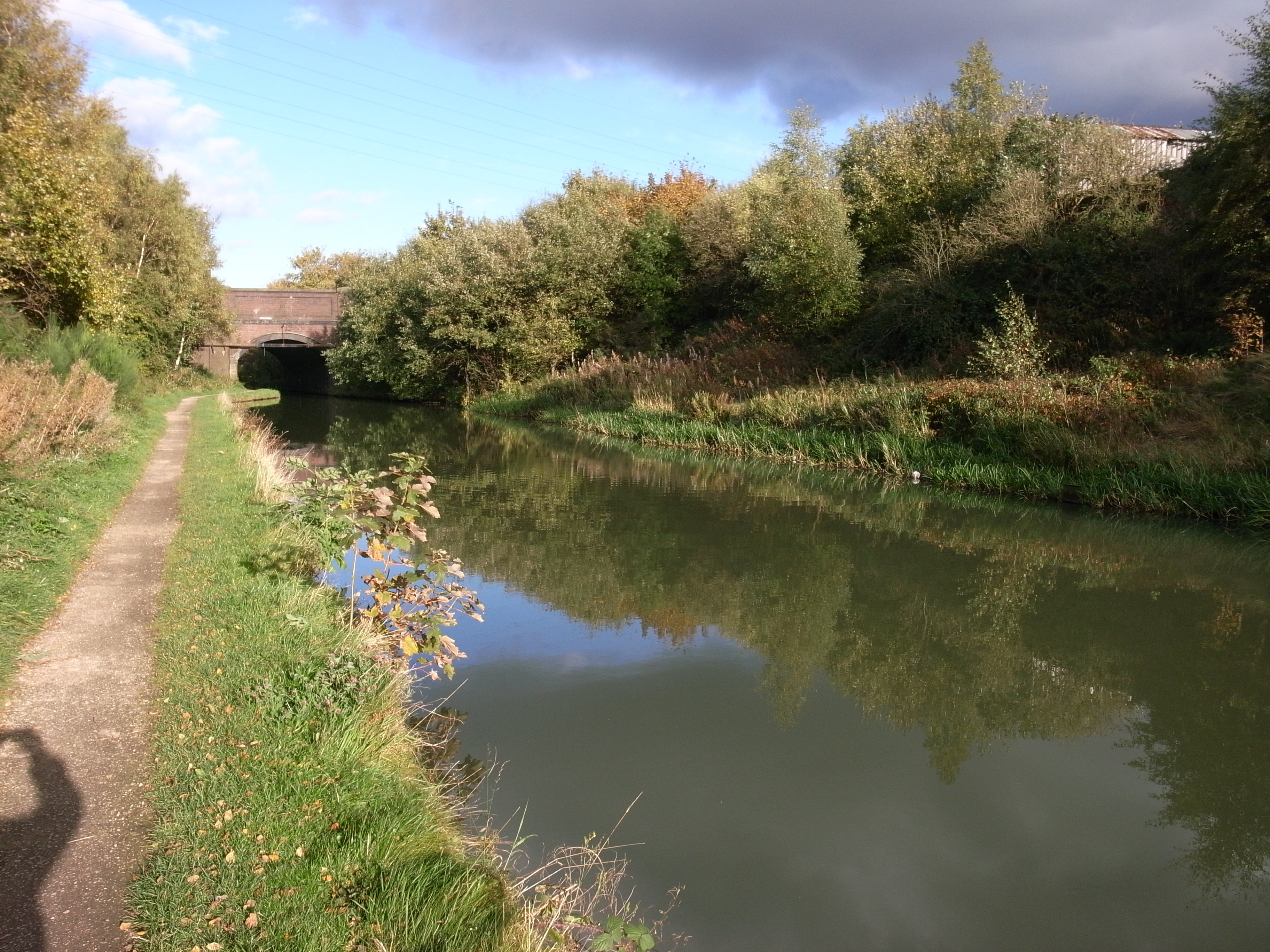 The disconnected Ridgacre Branch Canal in West Bromwich, England. This is Black Lake road bridge.